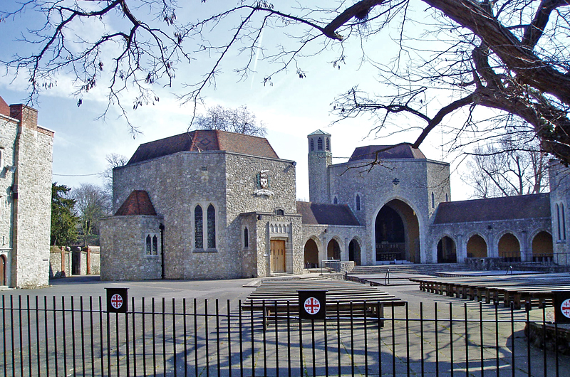 Aylesford Friary, showing the St. Joseph Chapel, the Shrine Altar and the Piazza.